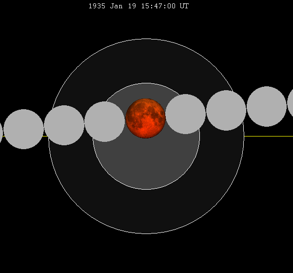 January 1931 lunar eclipse chart of moon's lunar eclipse path through the earth's shadow. thumb